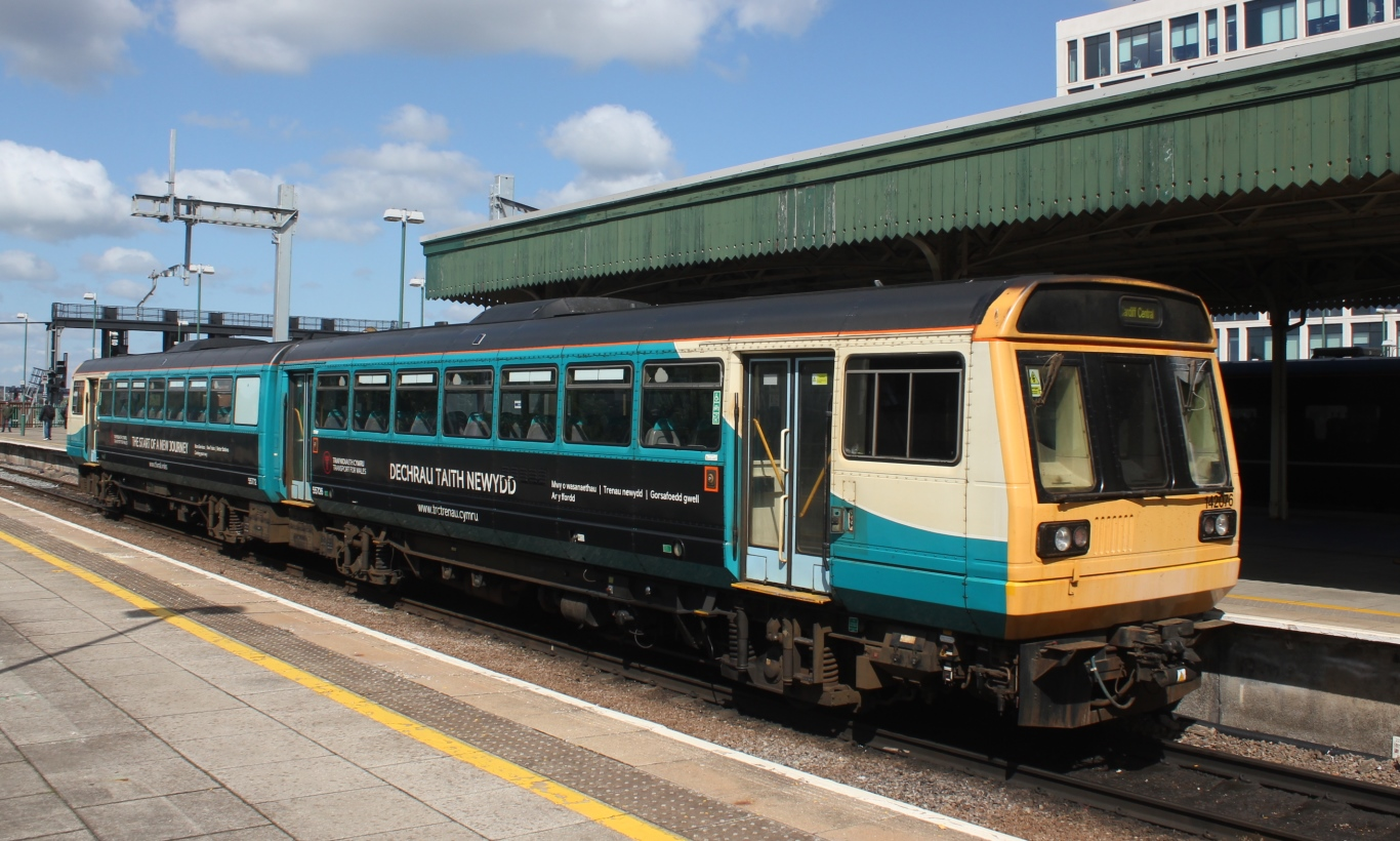 Transport for Wales' 142076 at Cardiff Central. It has arrived nearly half an hour late from Swansea and is now going out to the depot at Canton.